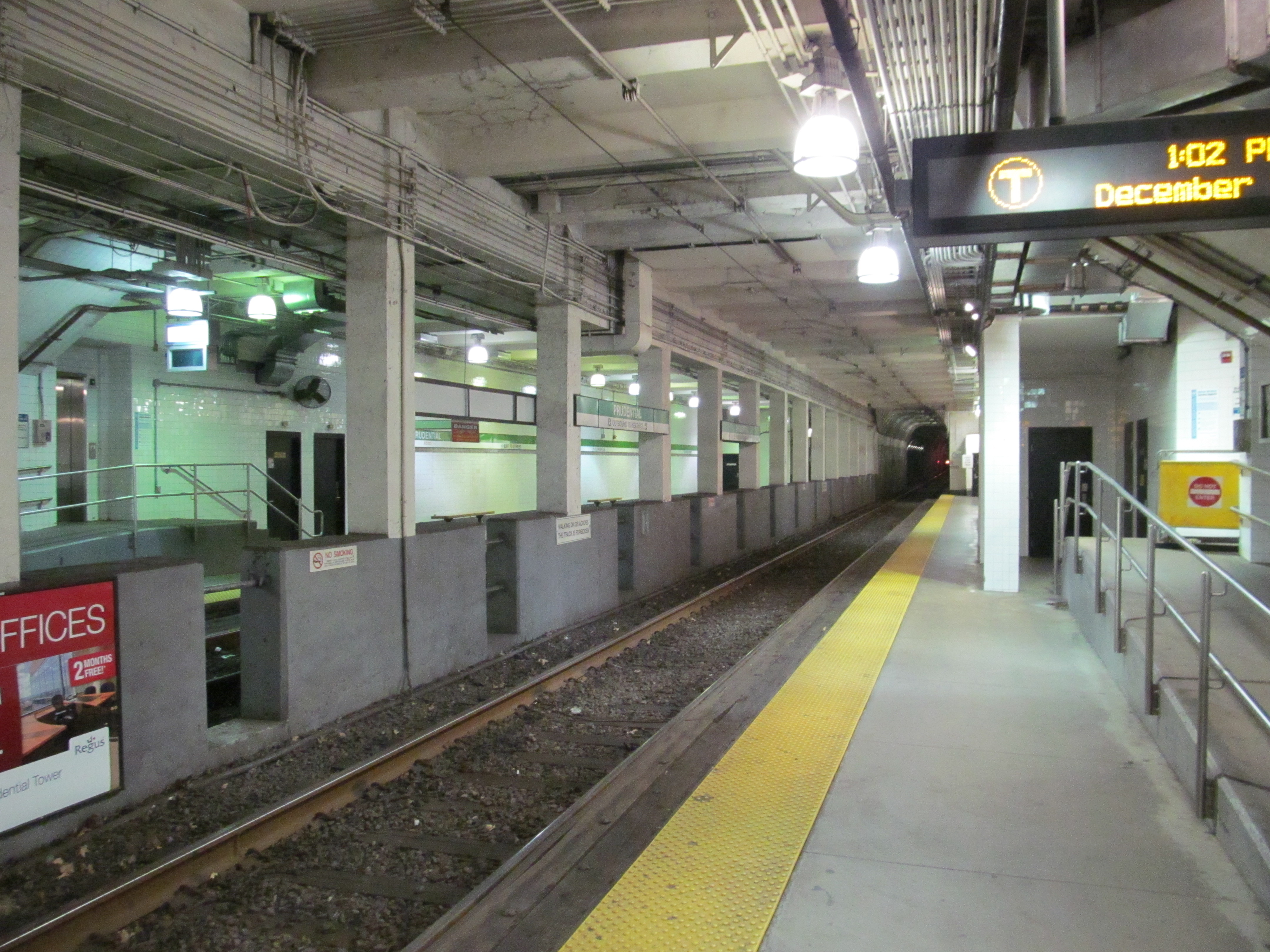 Outbound platform at Prudential